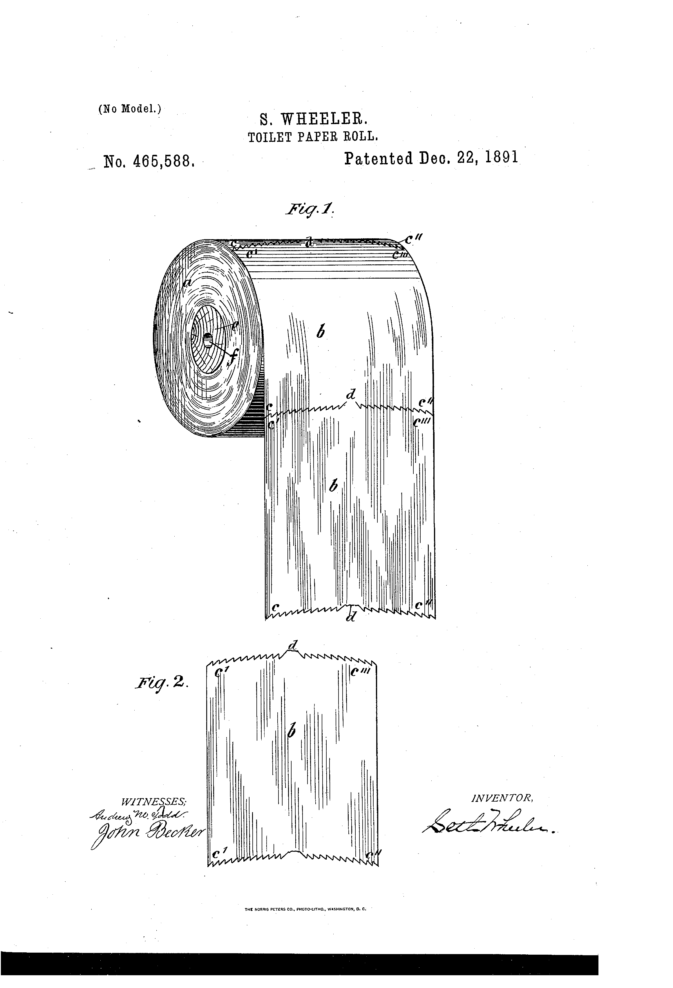 'Toilet Paper Roll' U.S. patent illustration (for a roll of perforated toilet paper). S. WHEELER. TOILET PAPER ROLL. No. 465,588. Patented Dec. 22, 1891. UNITED STATES PATENT OFFICE. SETH WHEELER, OF ALBANY, NEW YORK. TOILET-PAPER ROLL. SPECIFICATION forming part of Letters Patent No. 465,588, dated December 22, 1891. Application filed June 8, 1891- Serial No. 395.473. (No model.) Google patents site: Embedded PDFs @ : United States Patent and Trademark Office (drawing) United States Patent and Trademark Office (text) Some relevant articles: Wikipedia:Toilet paper#As a commodity Wikipedia:Toilet paper orientation